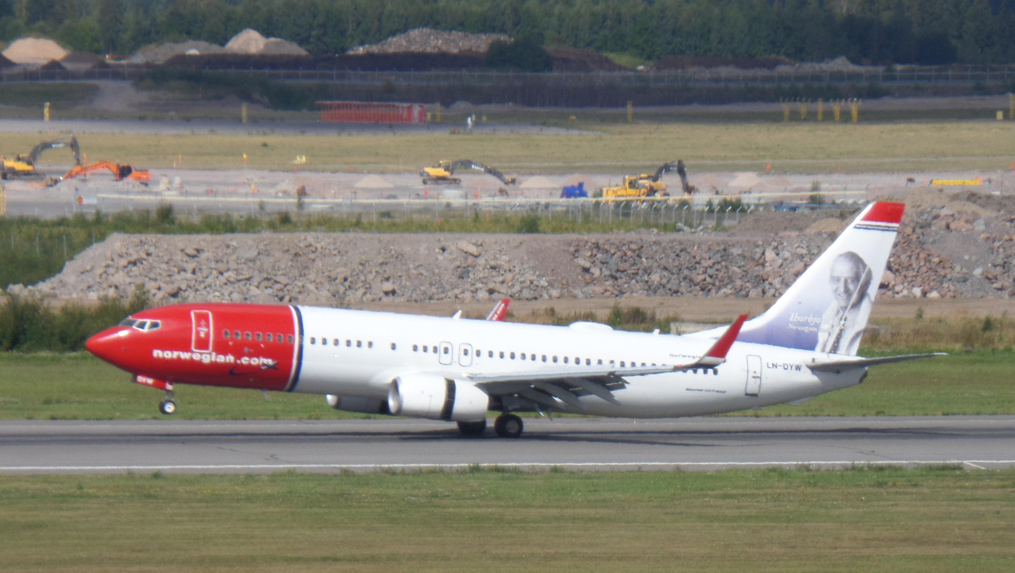 Norwegian Air Shuttle Boeing 737-8JP LN-DYW at Helsinki-Vantaa Airport on 17 August, 2014.